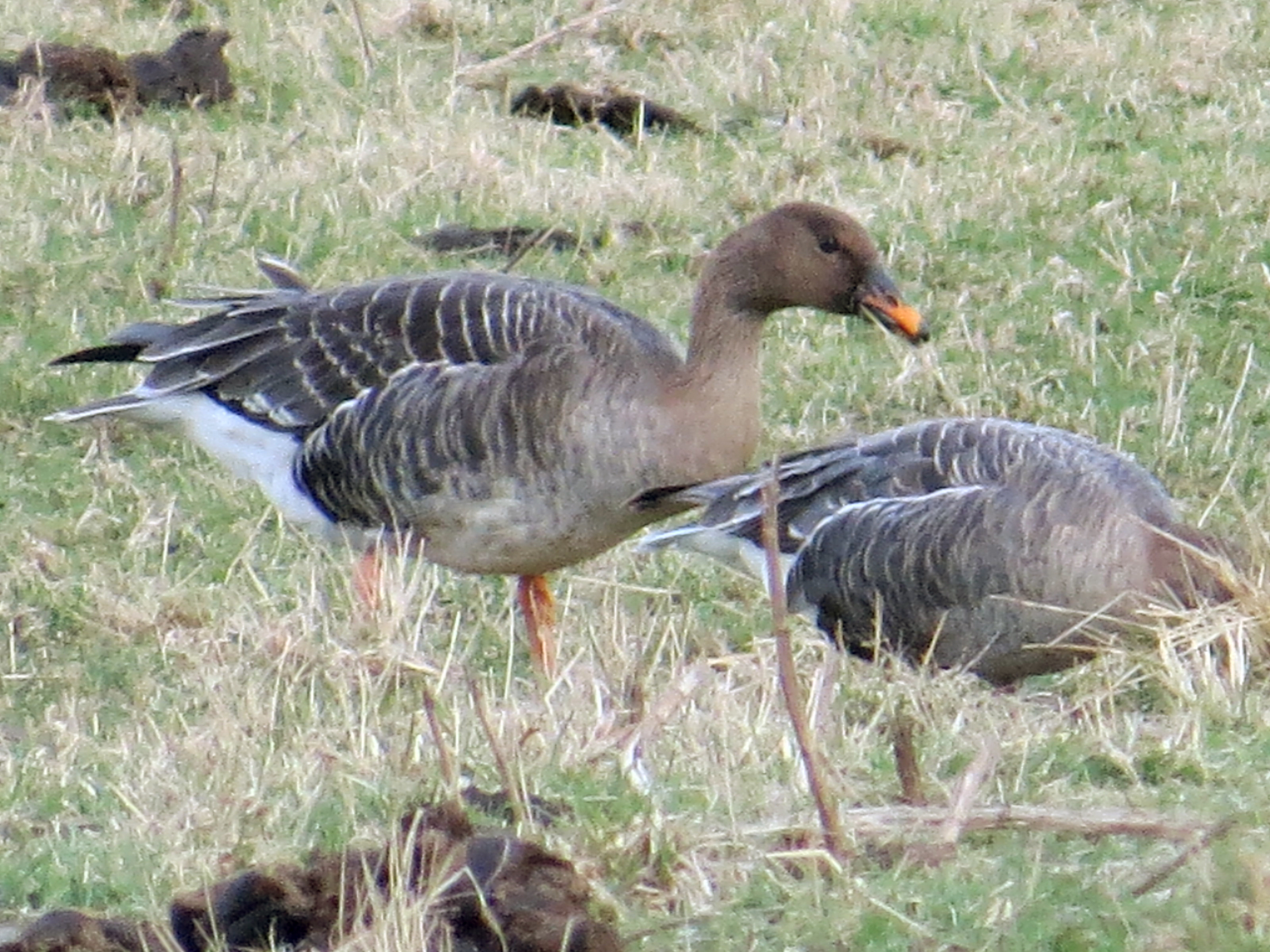 Taiga Bean Goose Anser fabalis fabalis, RSPB Saltholme, Co Durham, UK.